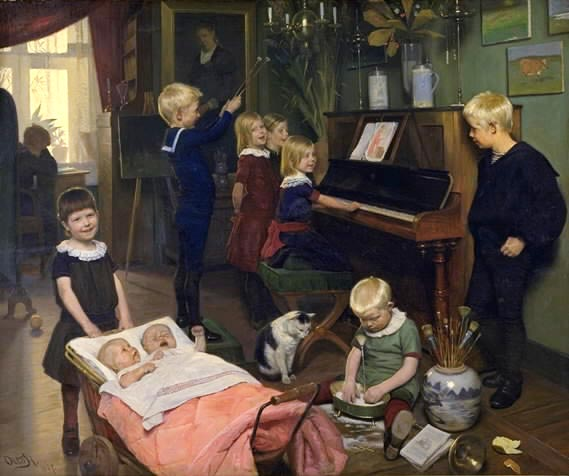 An oil painting entitled Koncert (Concerto) now in the National Gallery of Denmark